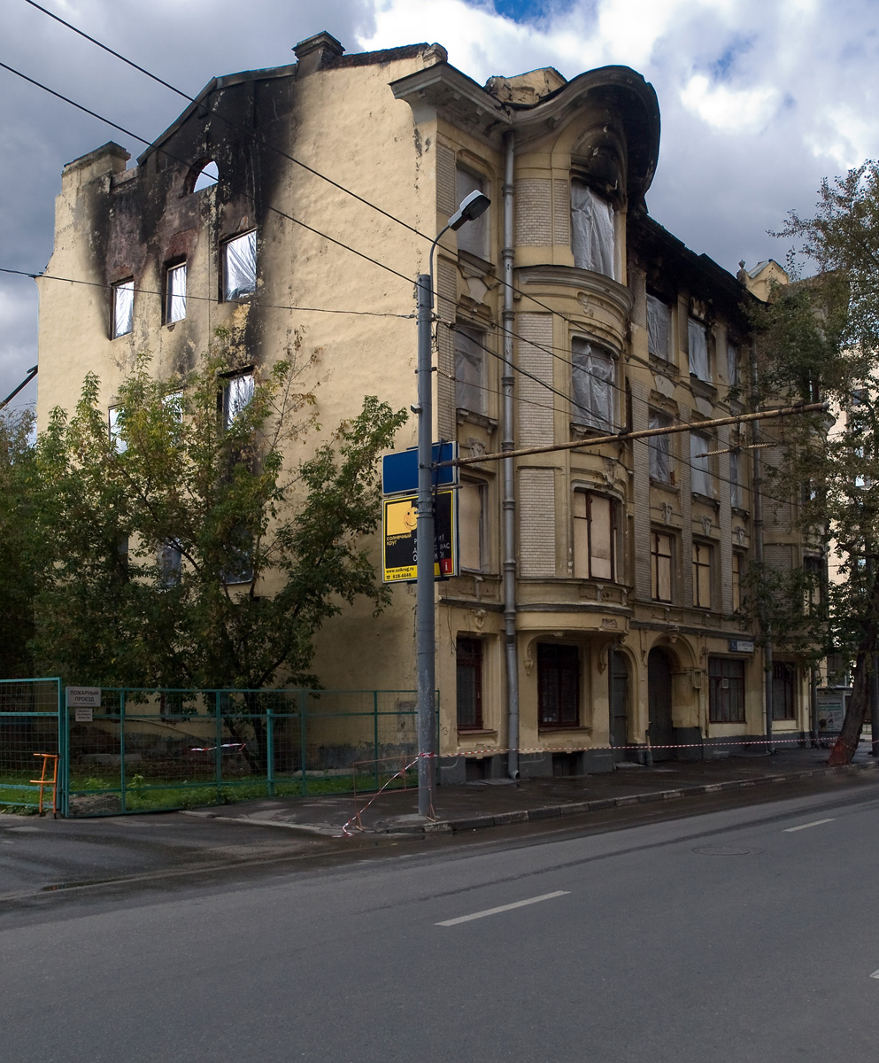 Former Bykov building in Moscow, designed by Lev Kekushev, was burnt down 16/09/2009 to make way for new development.